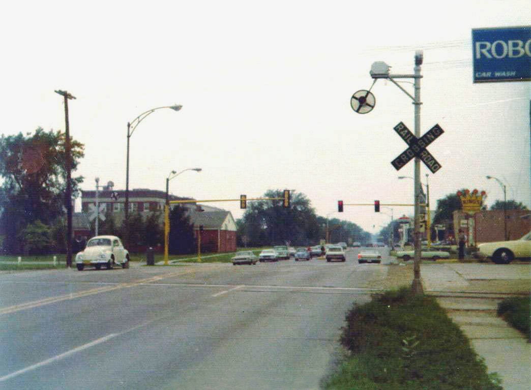 Chicago & Northwestern Railroad- Ames Des Moines branch line. WRRS Autoflag #5 wigwags in downtown Ames, IA on US 30/65 which was known as Lincoln Way in Ames